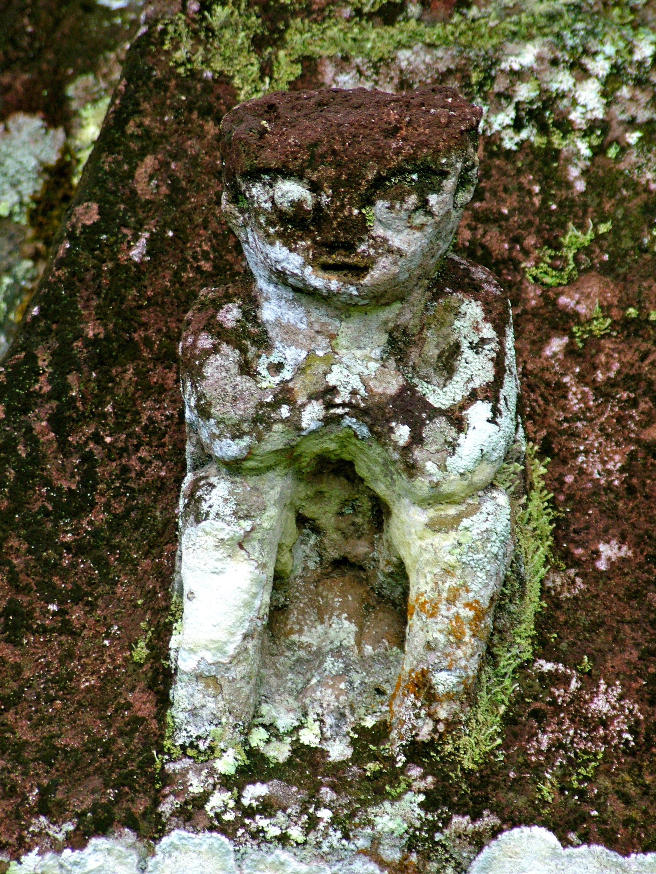 Waruga tomb of Minahasa ancestors